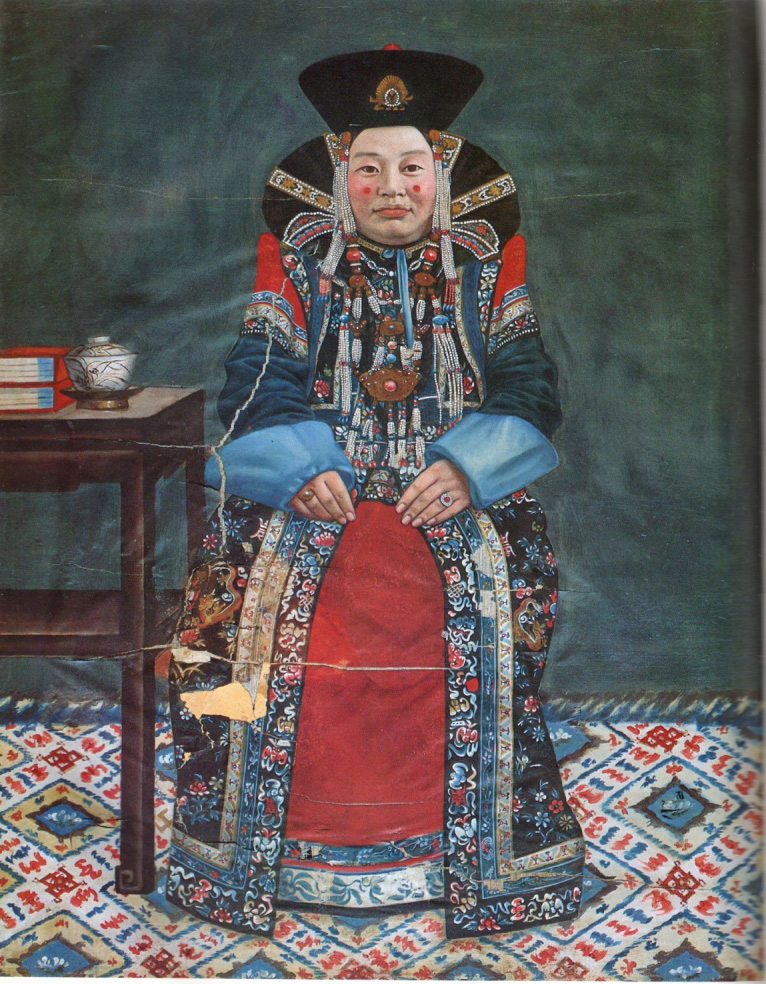 Sonomtseren, Tusheet-khan Nasantogtokh's spouse, 56.5×45, paiting, mineral paints, Fine Arts Museum